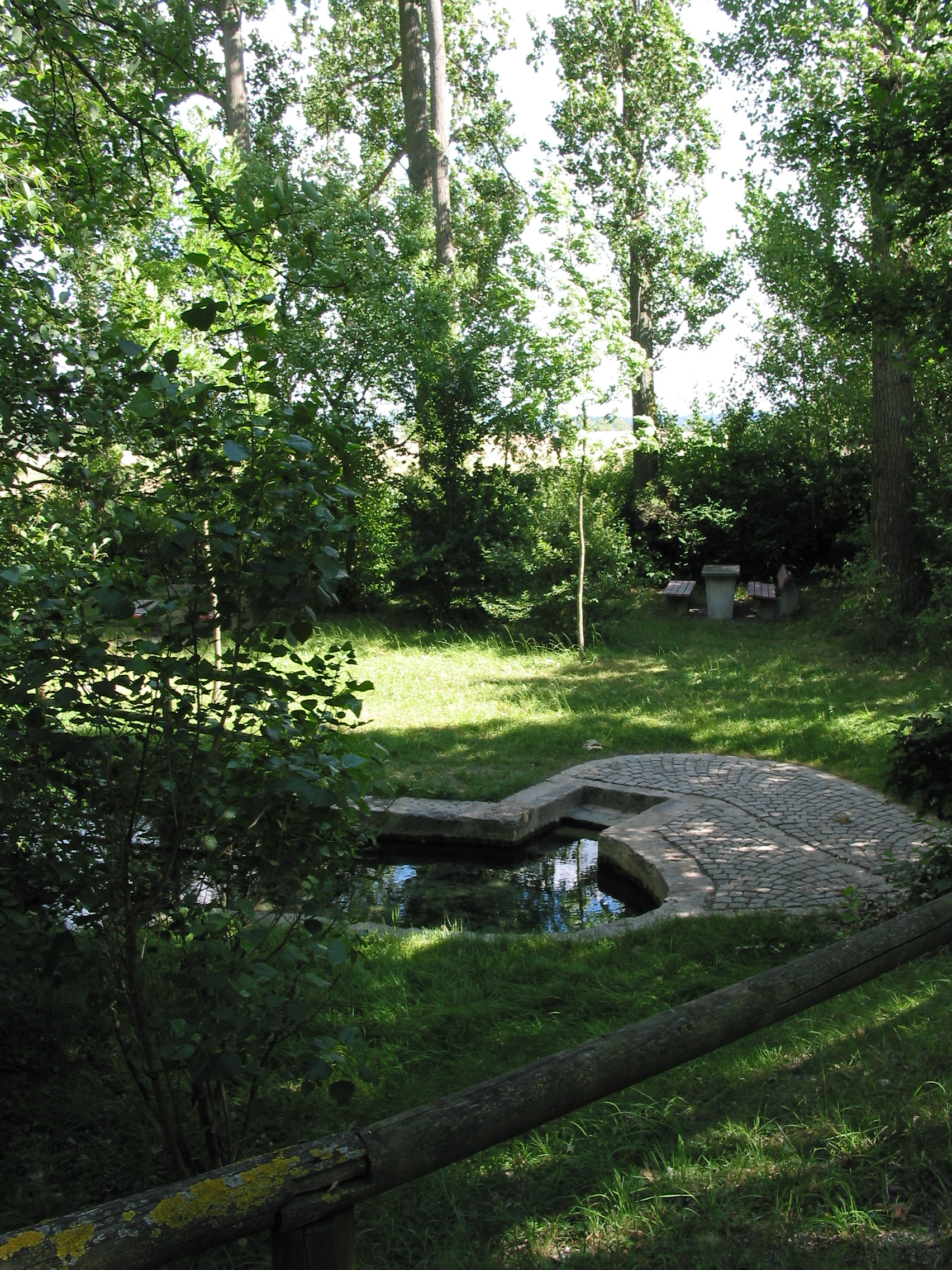 Spring of River Aisch near Schwebheim